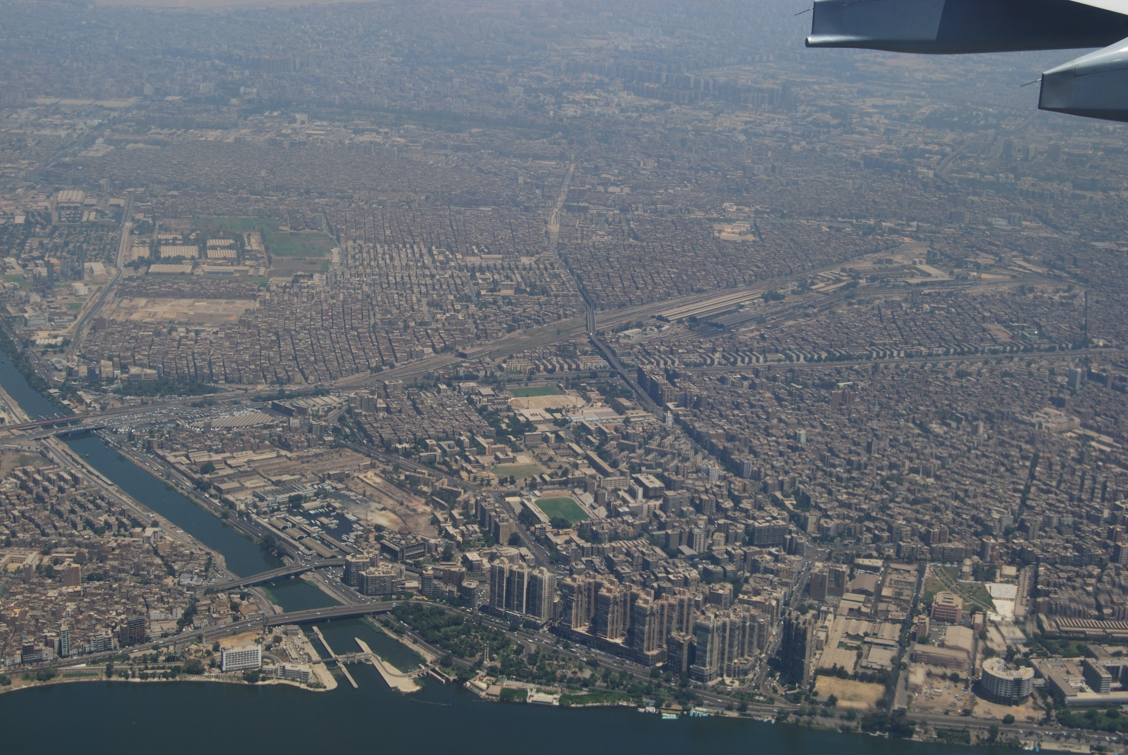 Cairo